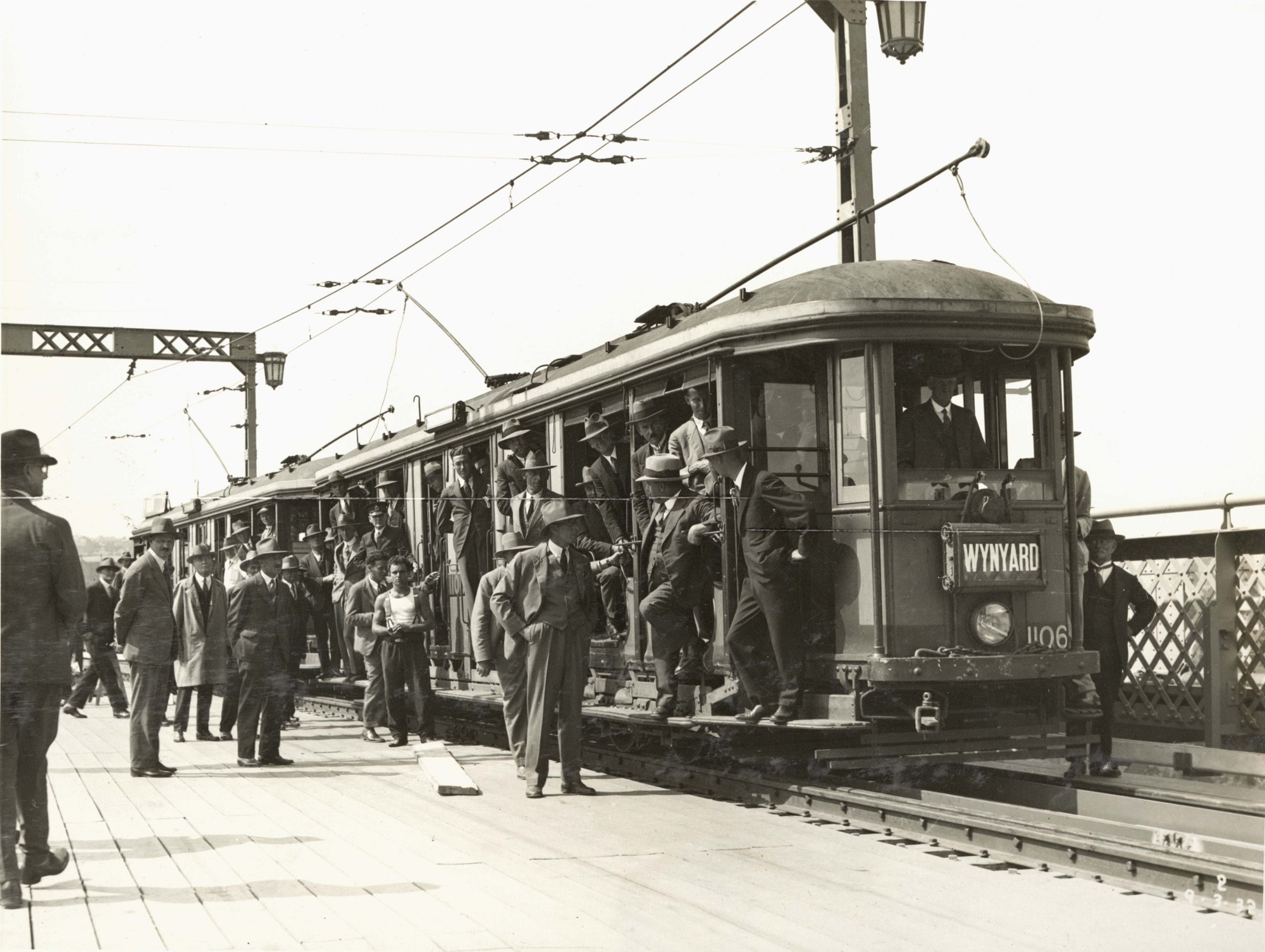 First Tram across the Sydney Harbour Bridge